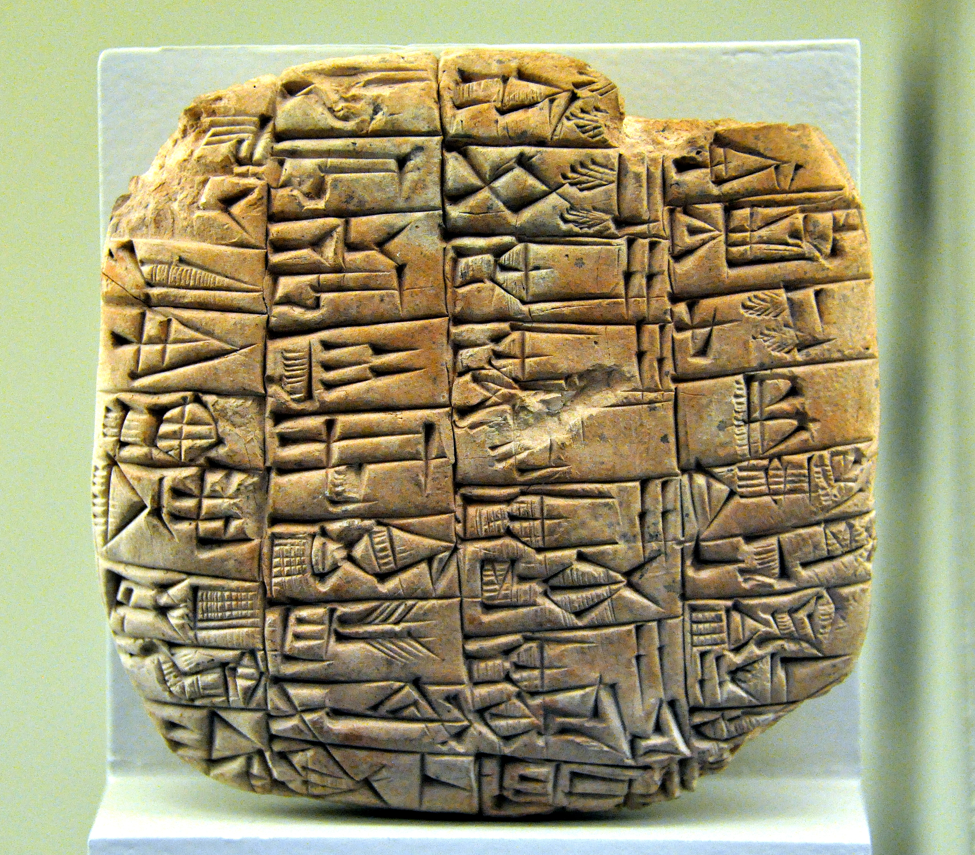 This clay tablet enlists different job titles. From Shuruppak (modern-day Tell Fara), Southern Mesopotamia, Iraq. 2nd half of the 3rd millennium BC. The Pergamon, Museum, Berlin, Germany.